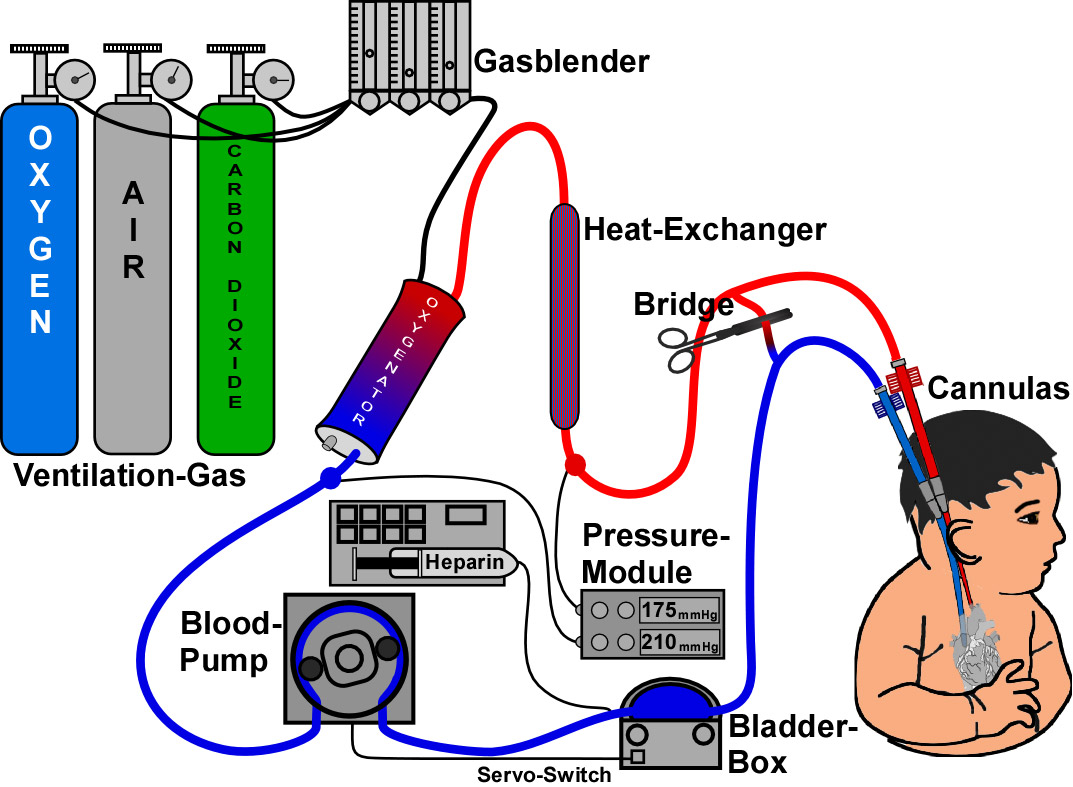 Ecmo schema, to provide extracorporeal oxygenation